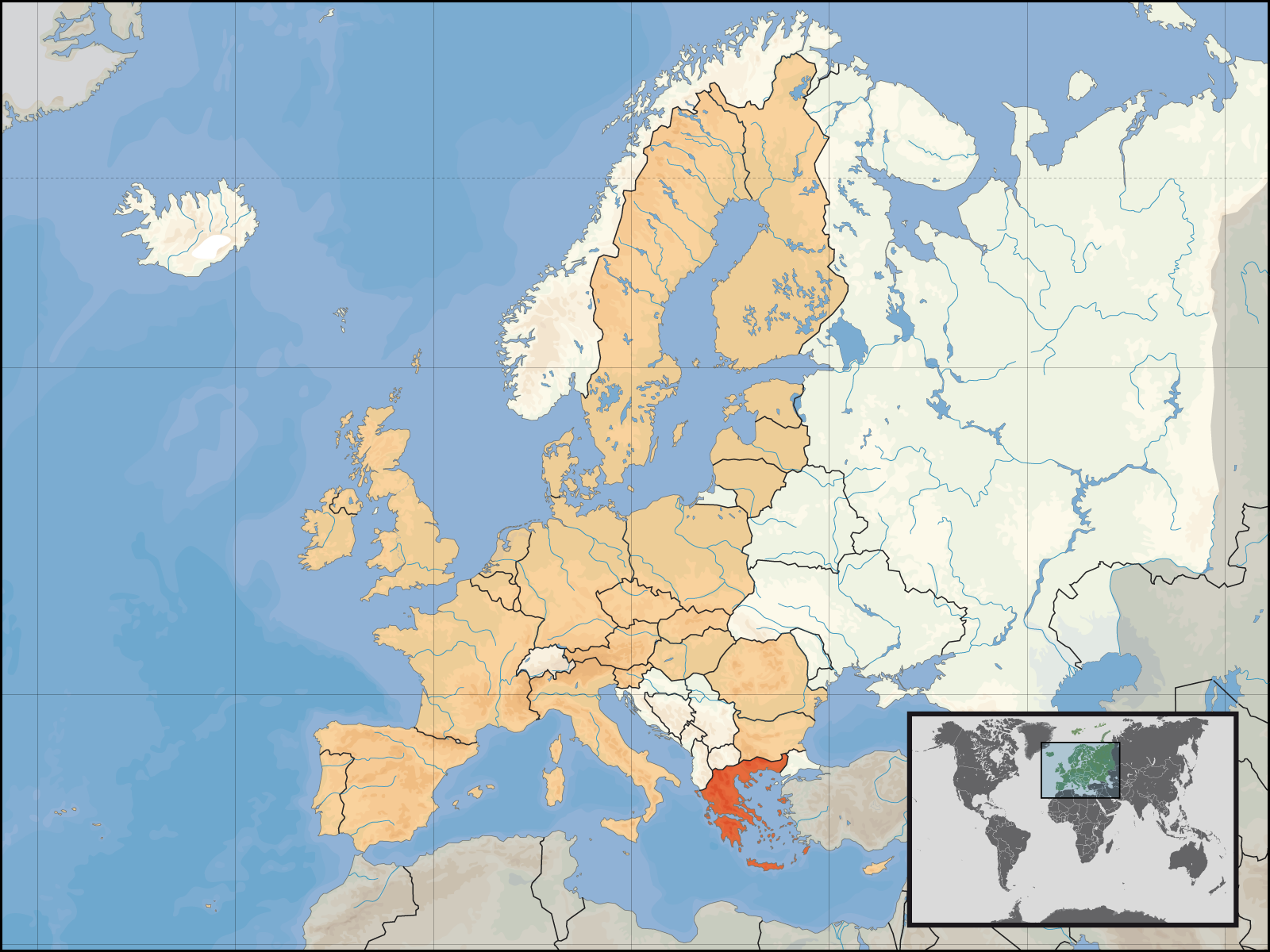 Location of Greece within Europe and the European Union on the 1st of January 2007.